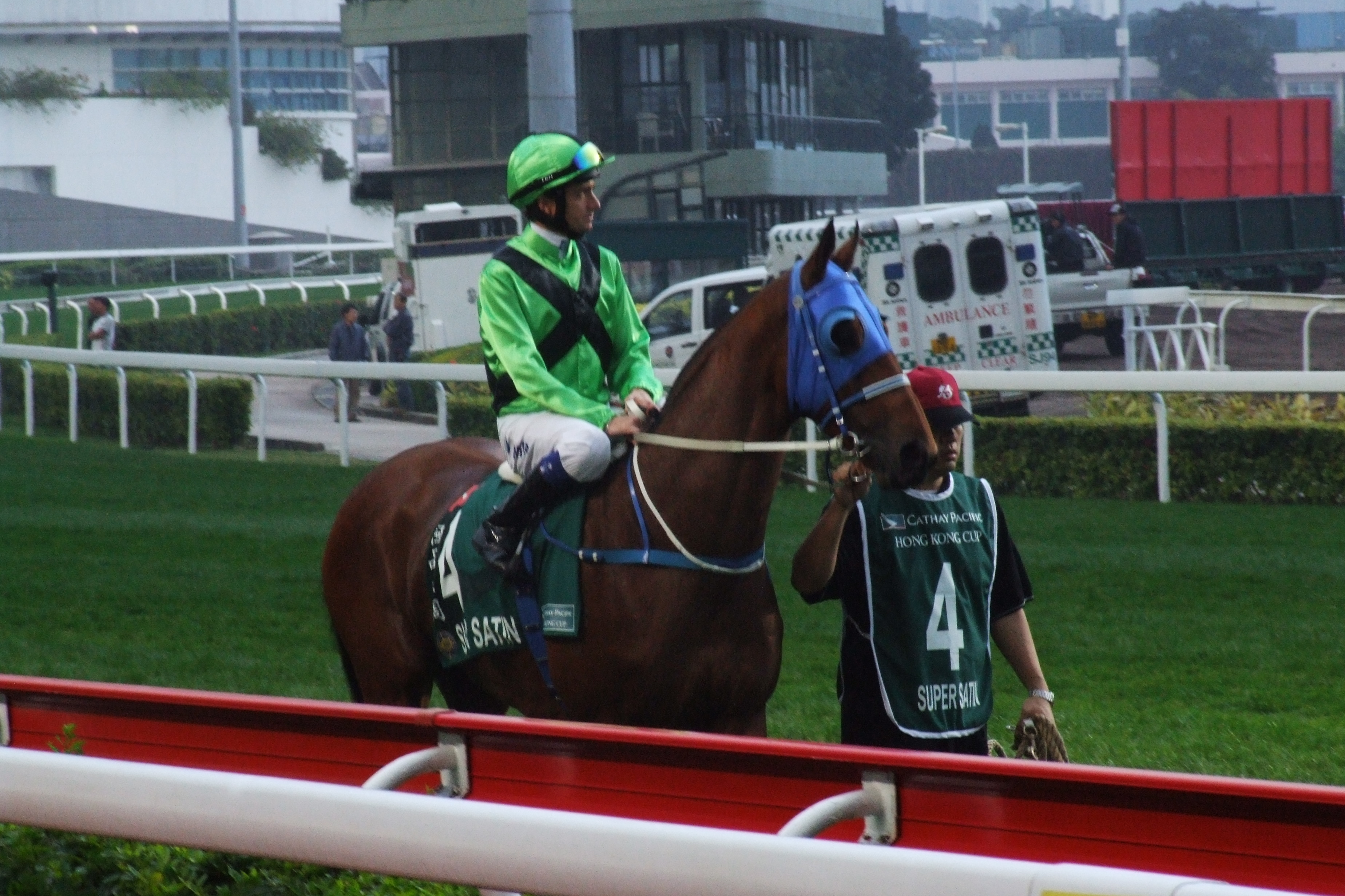 Super Satin 中文（香港）: 極品絲綢